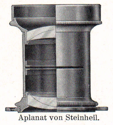 This is a sktech of a Steinheil aplanat.